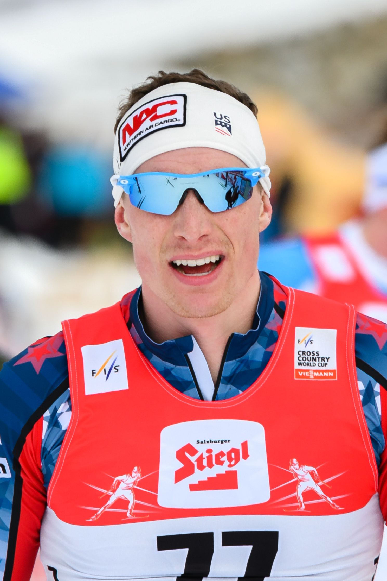 Seefeld-Triple 2018, third day January 28th. Picture shows KORNFIELD Tyler (USA).